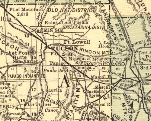 Map detail southwest of Tucson, Arizona from Hardesty's Historical and Geographical Encyclopedia New York: H.H. Hardesty & Company, 1883